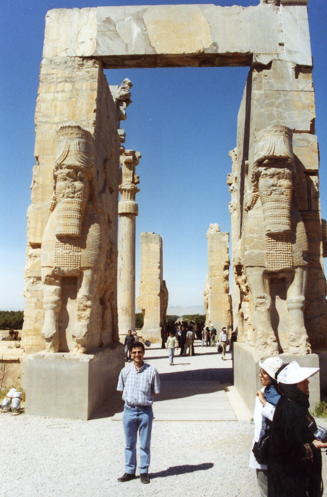 gate of all nations, persepolis, Iran